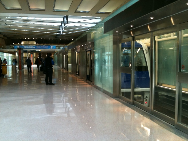 Dulles Aerotrain main terminal station